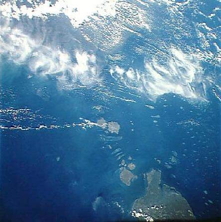 The Torres Strait. Image courtesy of the Image Analysis Laboratory, NASA Johnson Space Center